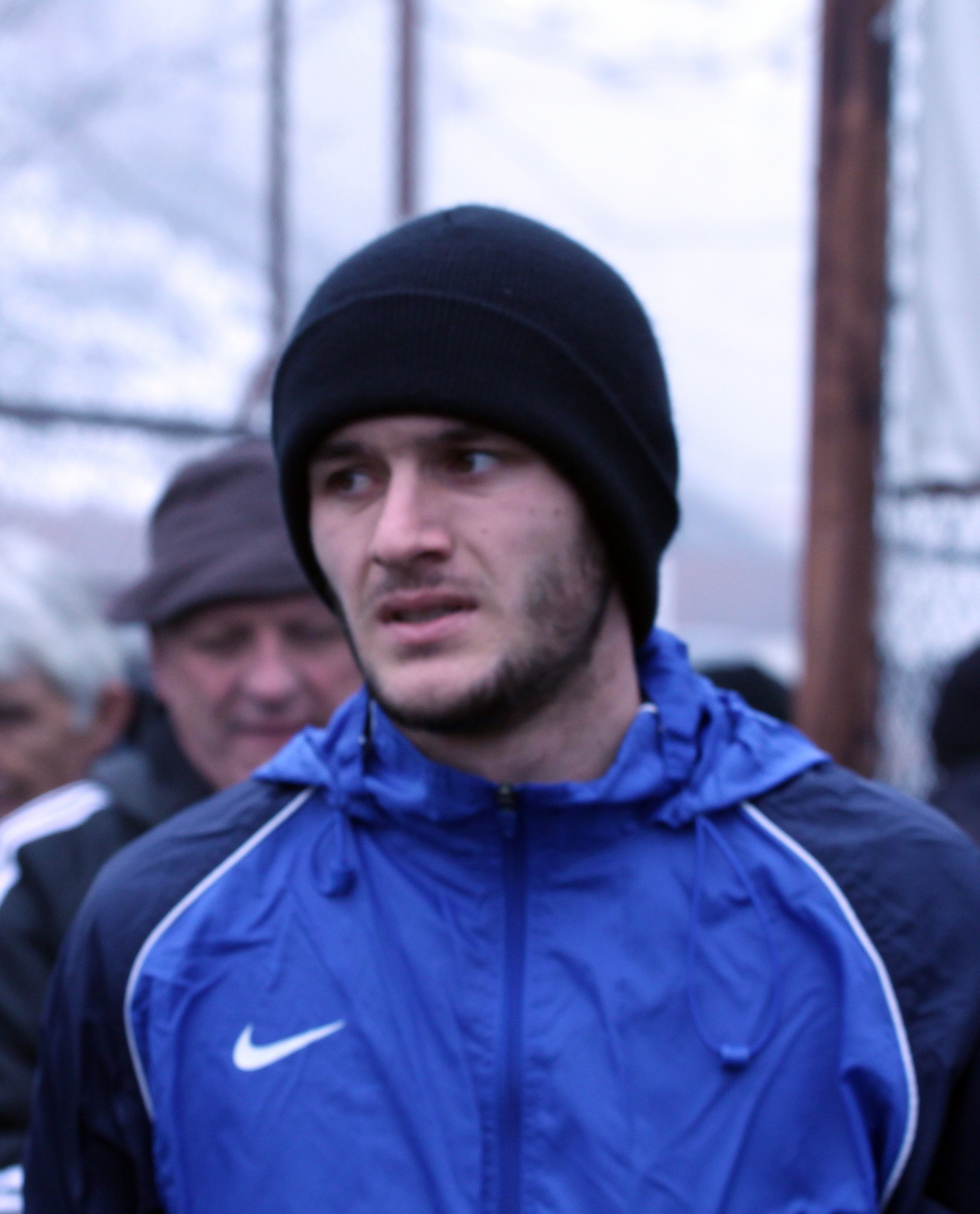 Ismail Isa Mustafa (Bulgarian: Исмаил Иса Мустафа) (born on 26 June 1989) is a Bulgarian footballer who currently plays for PFC Levski Sofia.